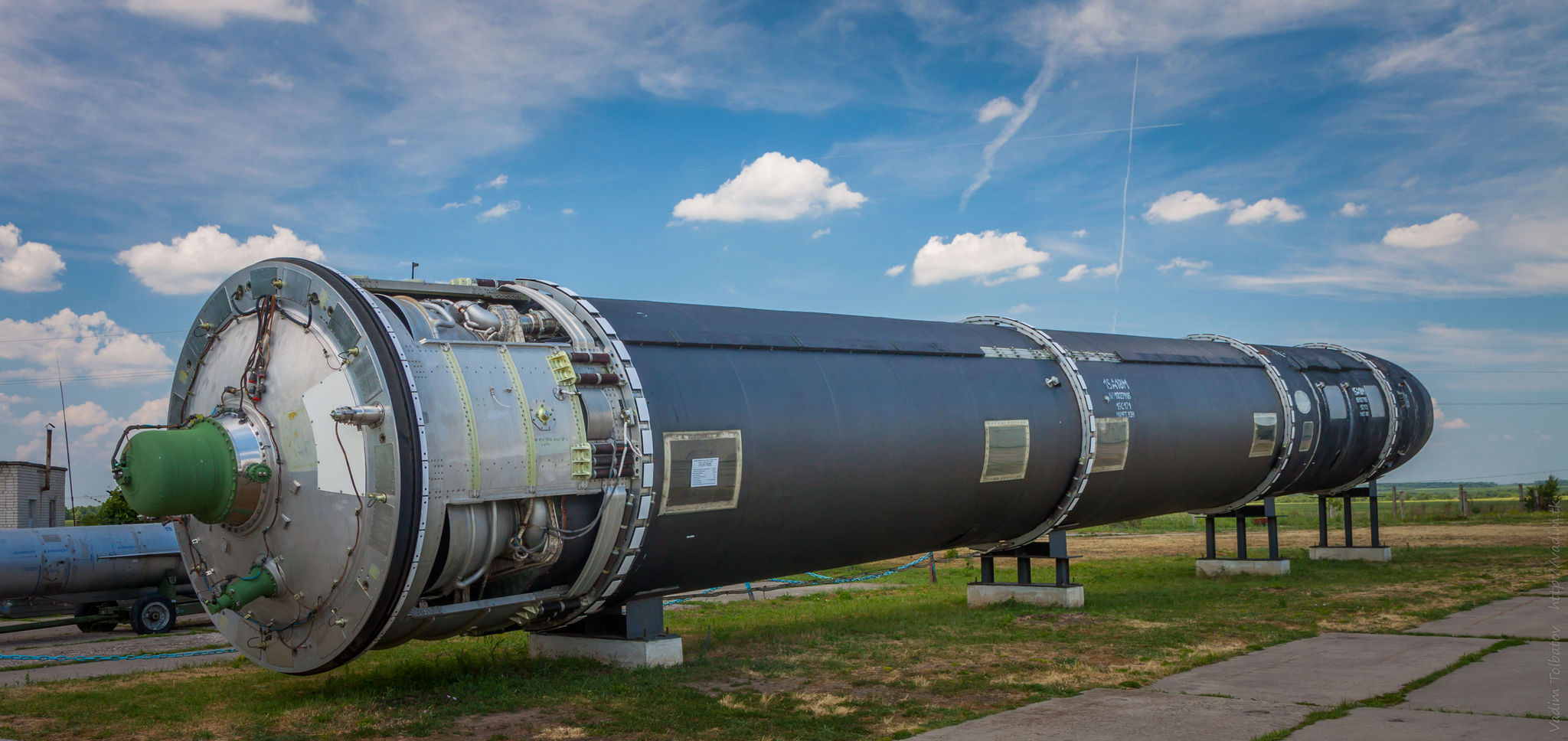 Intercontinental ballistic missile R-36M (NATO reporting name: SS-18 Satan)